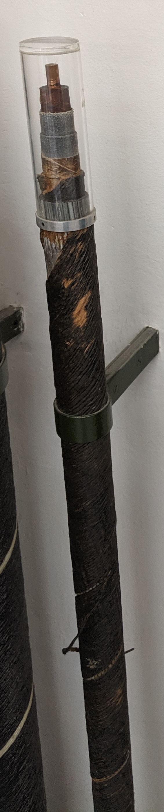 Cable from Elbe Project (seconds from the right) in Deutsches Museum, Munich